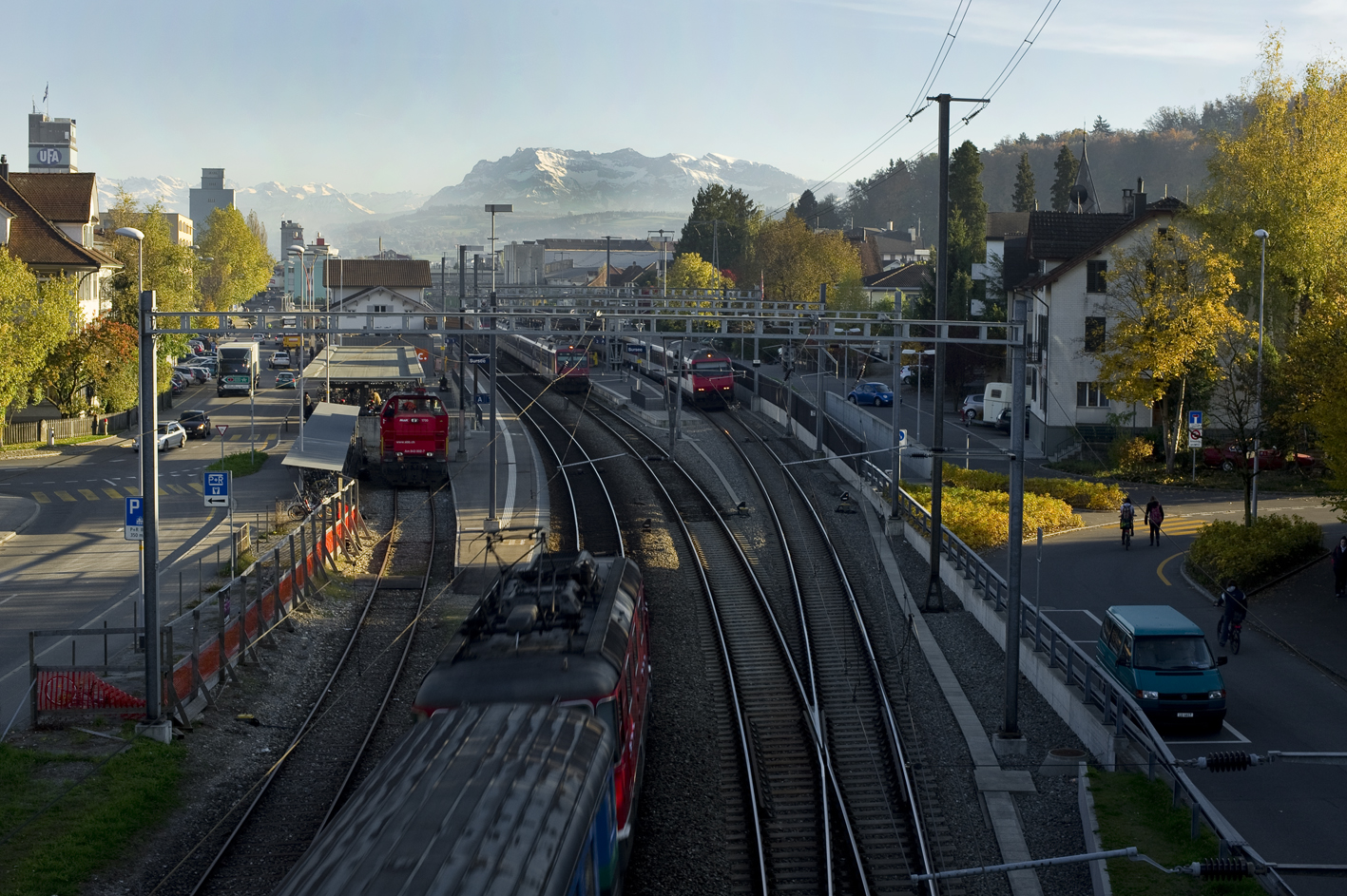 View of the railway station at Sursee, Switzerland.